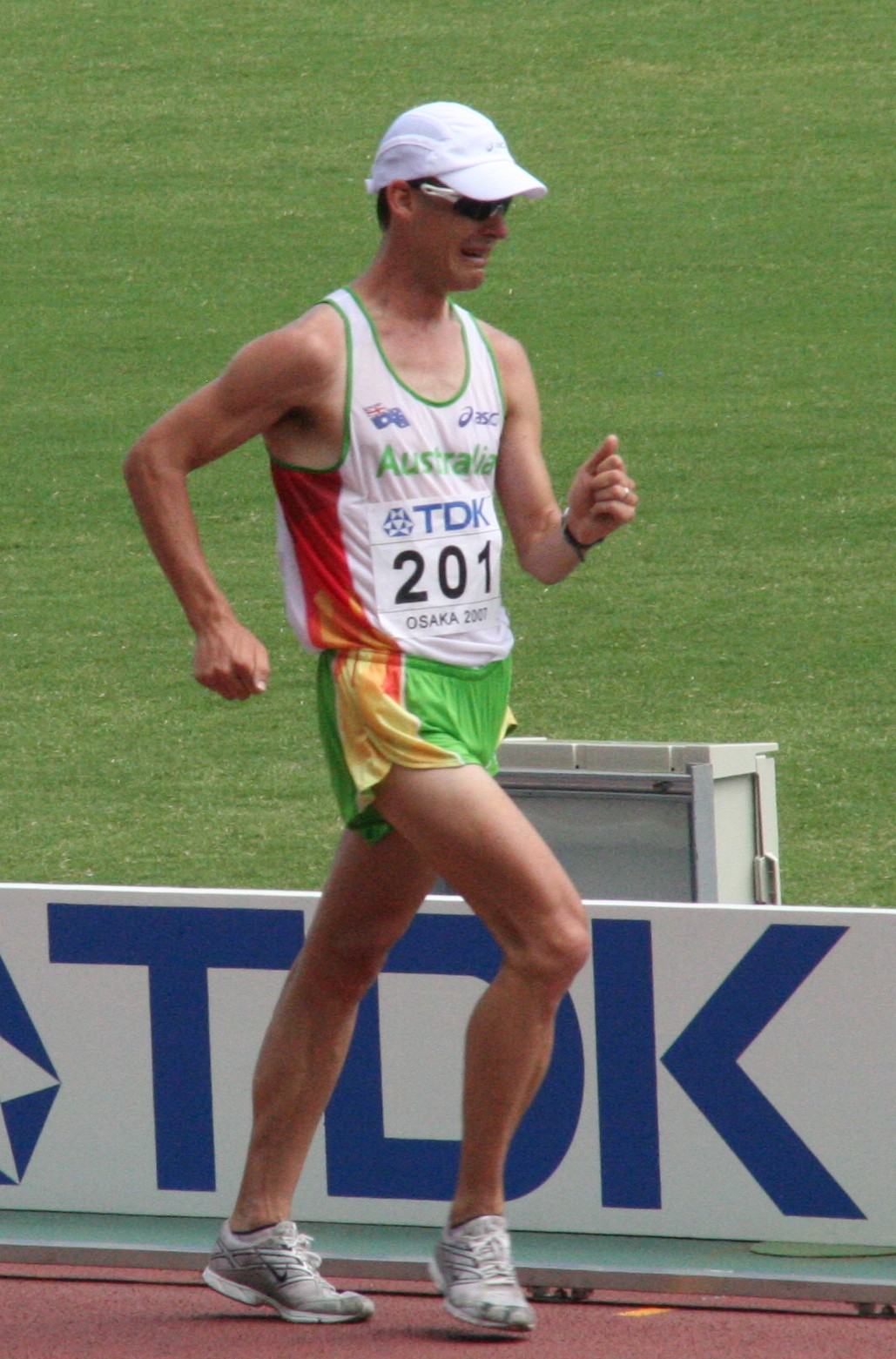 World Athletics Championships 2007 in Osaka - 50 km race walk winner Nathan Deakes on the final 100 metres